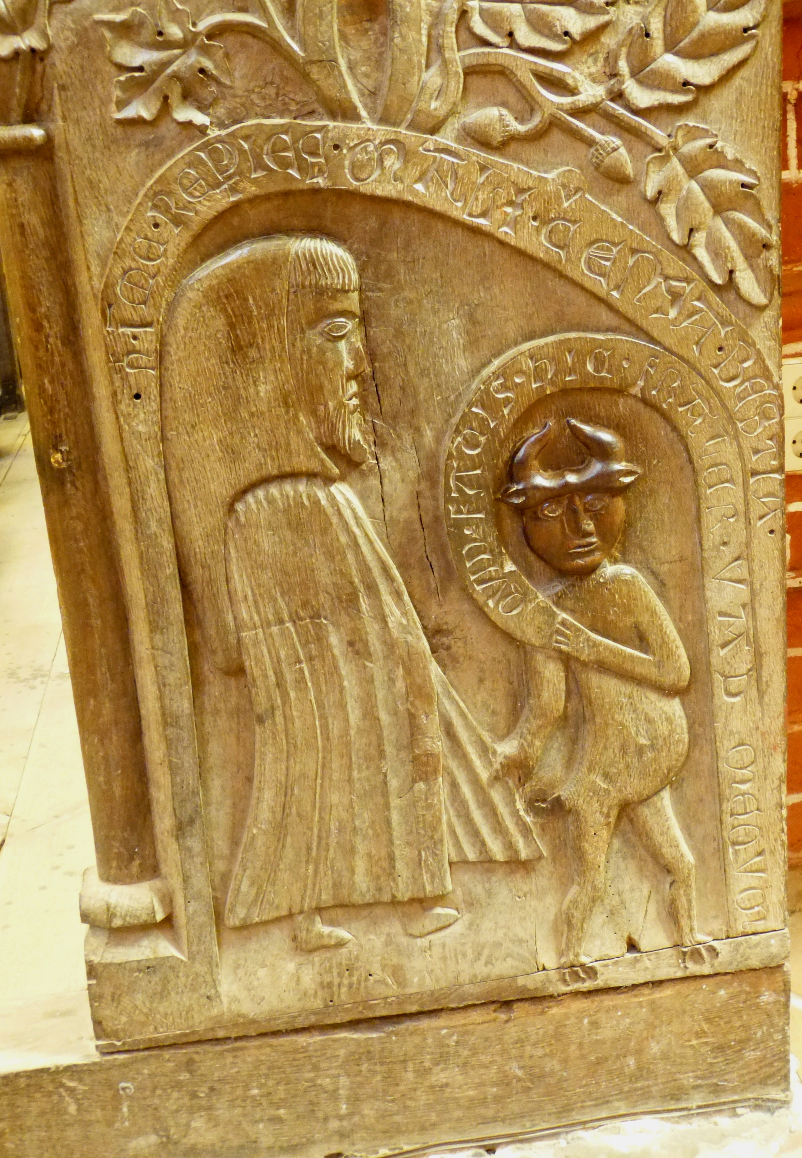 Bad Doberan ( Mecklenburg ). Minster: Choir stalls for lay brethren ( 1280s ) - Temptation of a lay brother by the devil with latin inscriptions: Devil: "Brother, what are you doing here? Come with me!" - Lay brother:" You won´t find something evil in me, ugly beast, go away!"